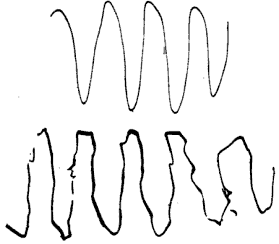 Figure 67 from the book "Cerebellar functions" by André Thomas, issue 12 of "Nervous and mental disease monograph series", published by the Journal of Nervous and Mental Diseases, 1912. In the illustration, the lower trace is an attempt by a patient with cerebellar disease to reproduce the upper trace.